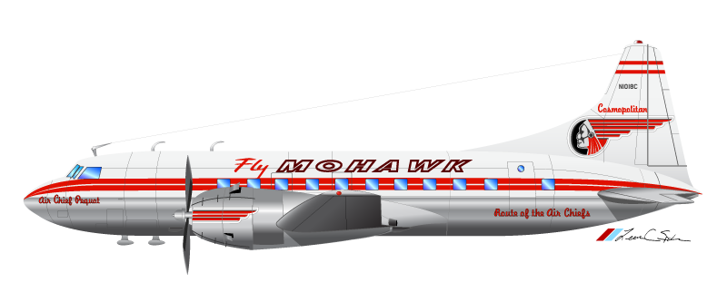 A rendition of a Convair CV-240 (N1018C) used by Mohawk Airlines in the late 1950's Early 1960's. Created by Leon C. Spath.